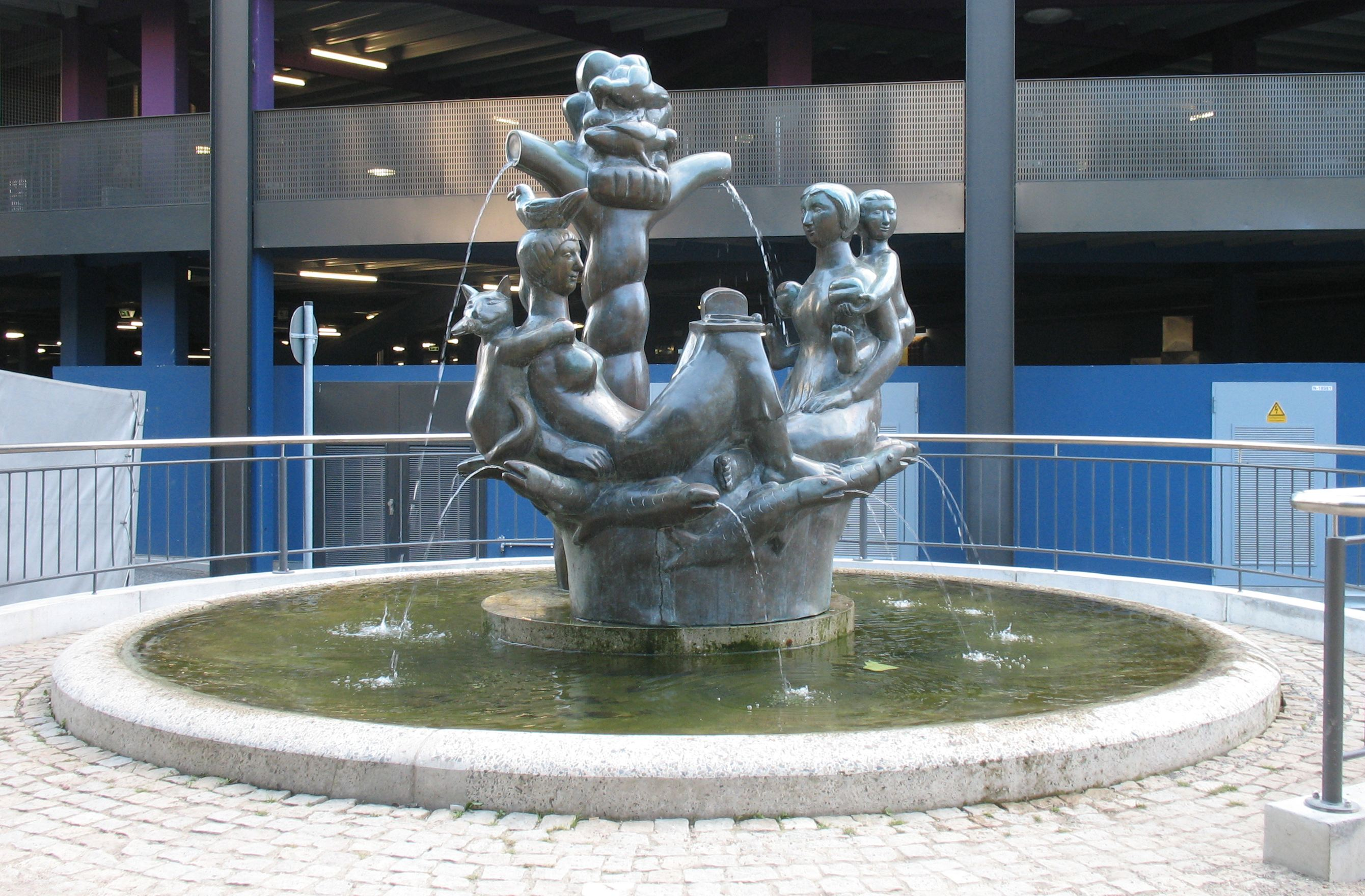 Fountain by Brigitte Haacke-Stamm in Berlin-Moabit, Germany